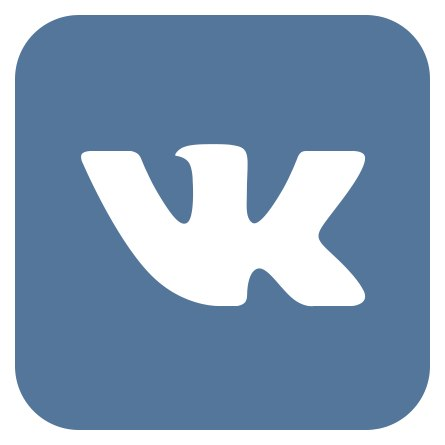 New logo of VK social network.